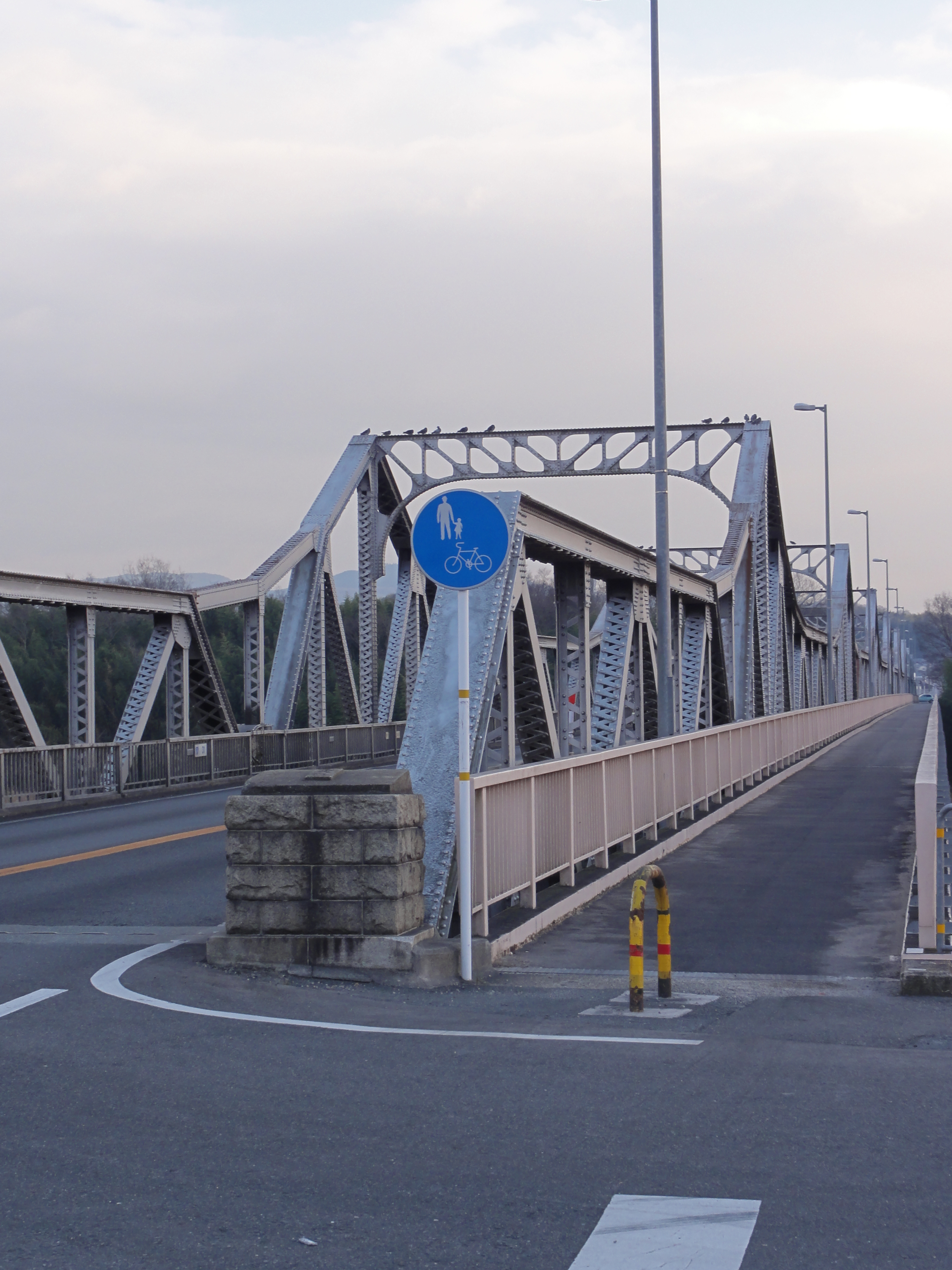 Great Izumi bridge(North end),Kyoto Pref., Japan